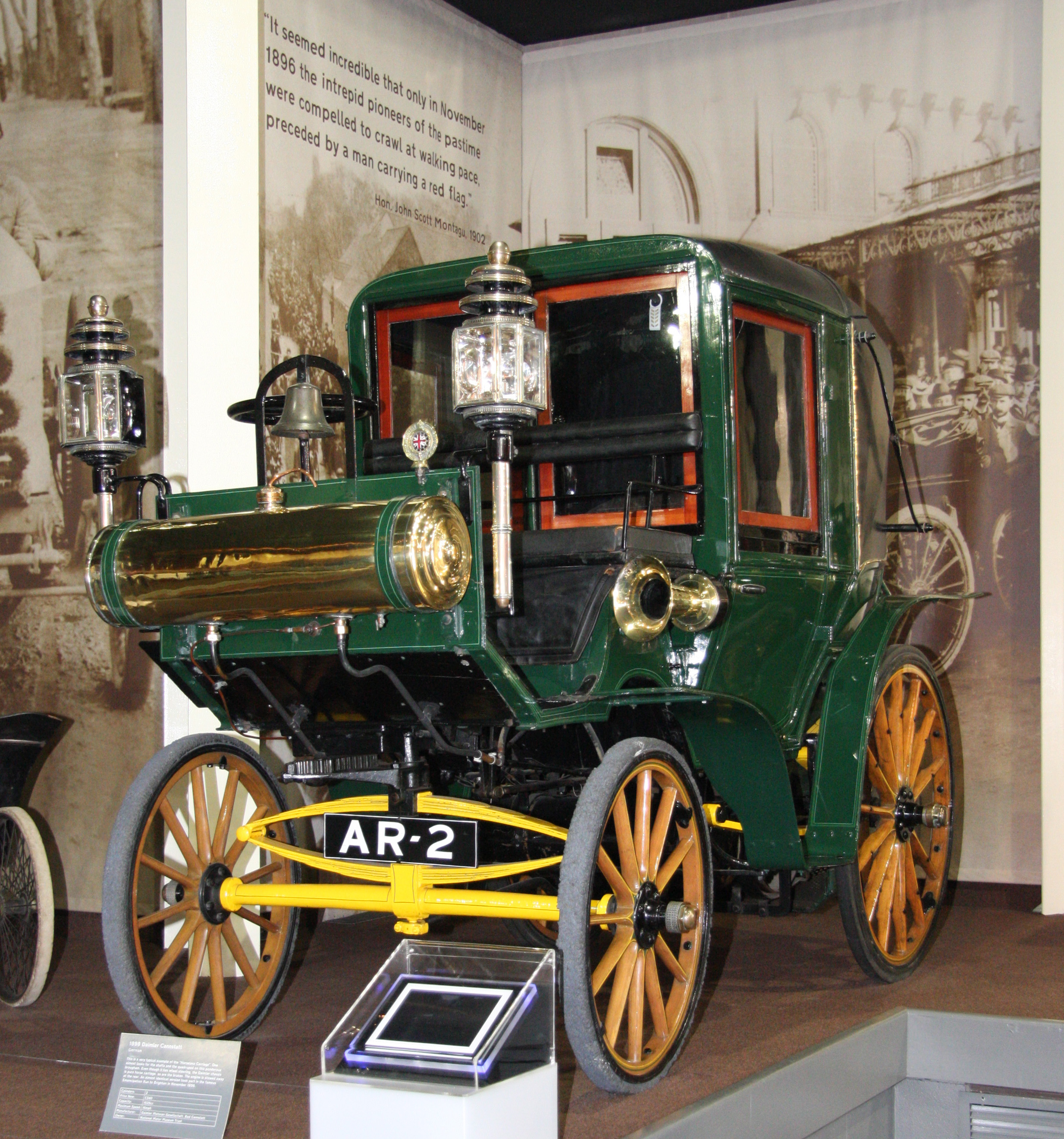 1898 Daimler Cannstatt. Typical example of the 'horseless carriage'.